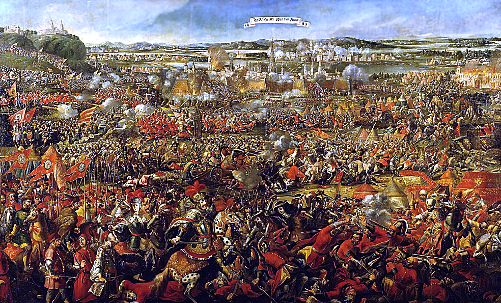 Turkish siege of Vienna.